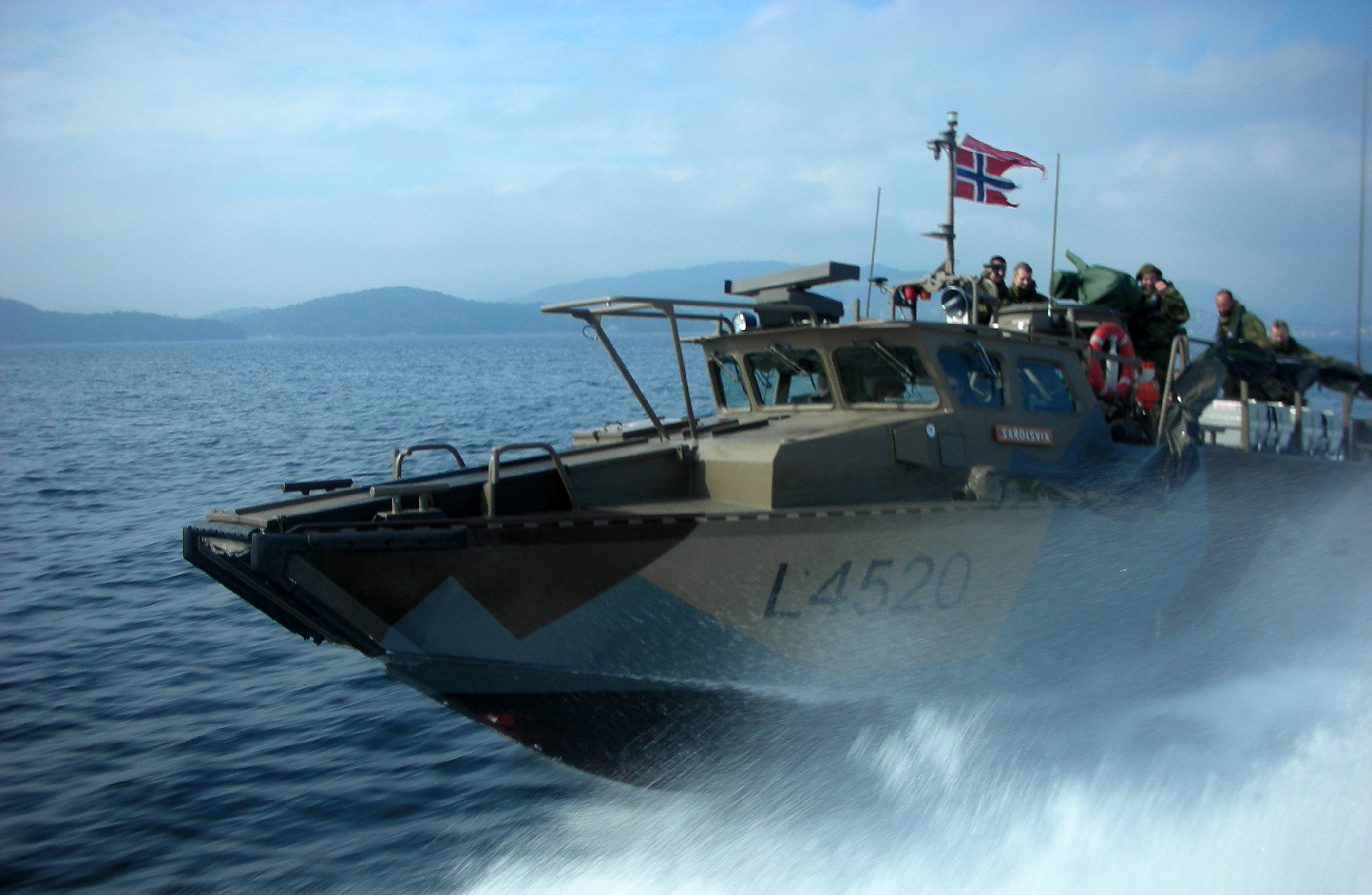 Picture of a Stridsbåt 90N